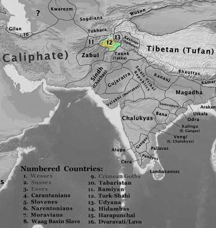 Map highlighting the territory of the Nezak Huns in 565 CE. Adapted from Thomas Lessman's Eastern Hemisphere map of 565 AD, which was obtained from and is licensed under the Creative Commons Attribution-Share Alike 3.0 Unported license.